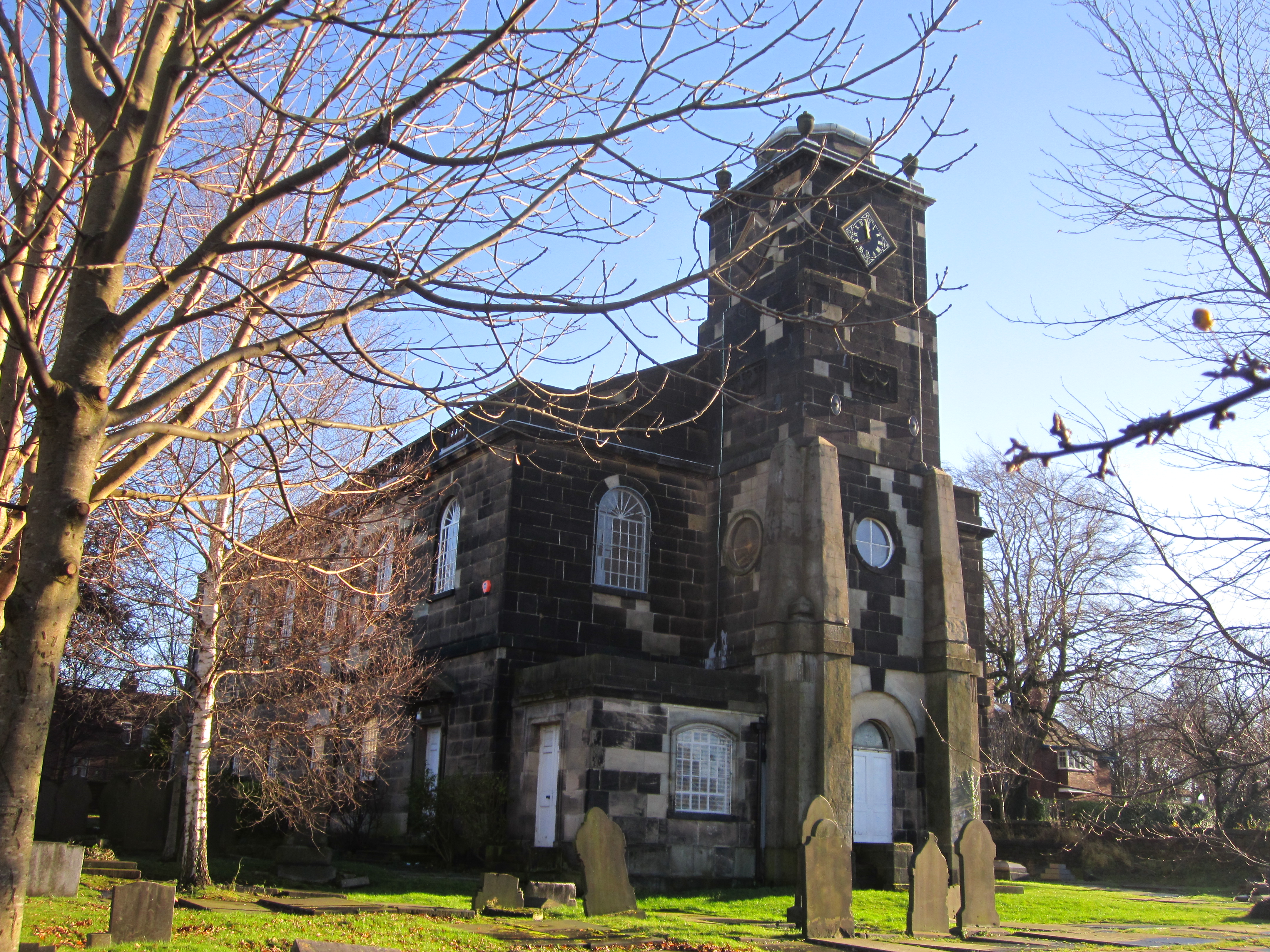 Photo taken at Holy Trinity church, Wavertree, Liverpool, England.